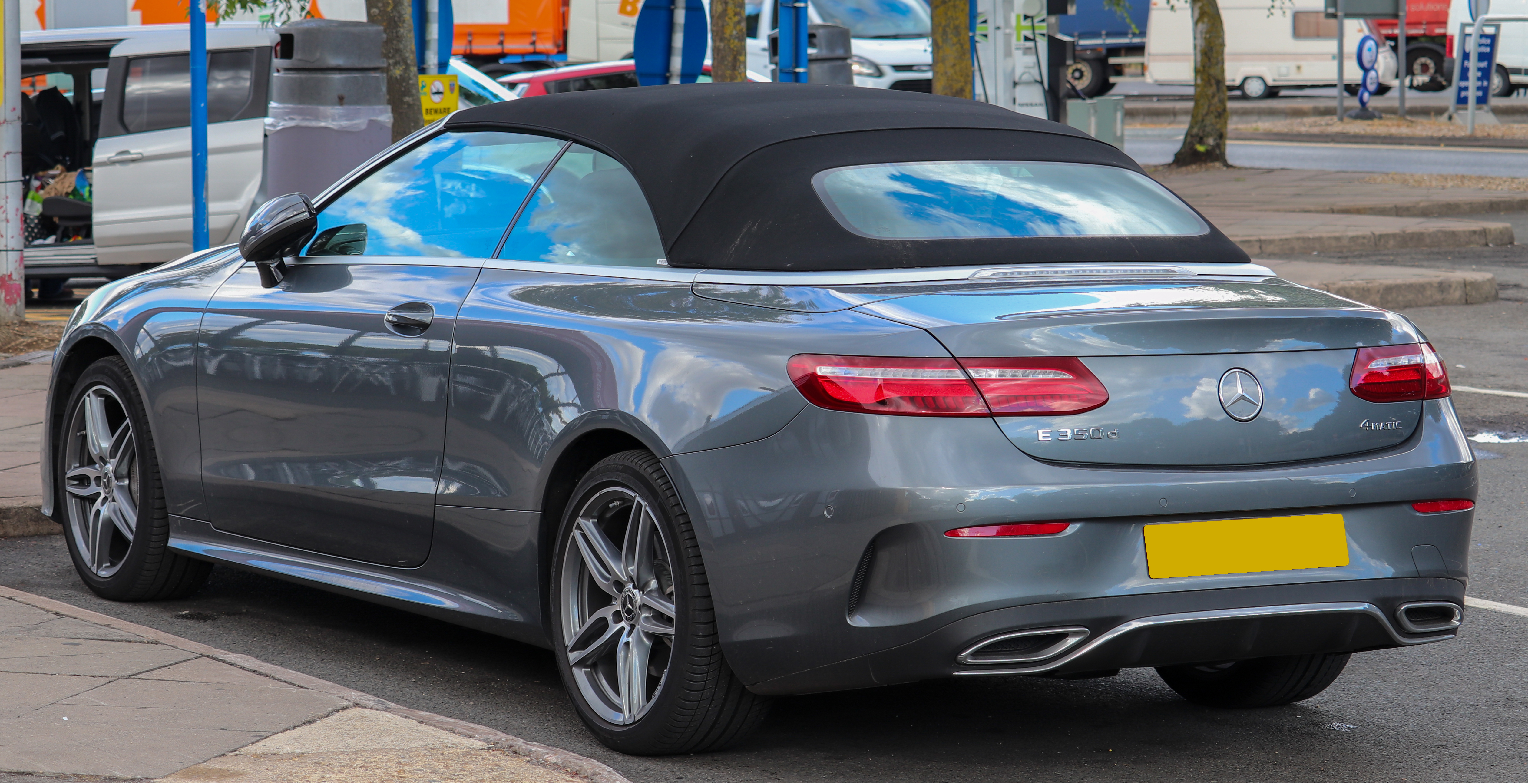 2018 Mercedes-Benz E 350d AMG Line 4MATIC Automatic 3.0 Rear